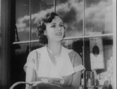 Marion Burns in The Dawn Rider, a 1935 film by Robert N. Bradbury